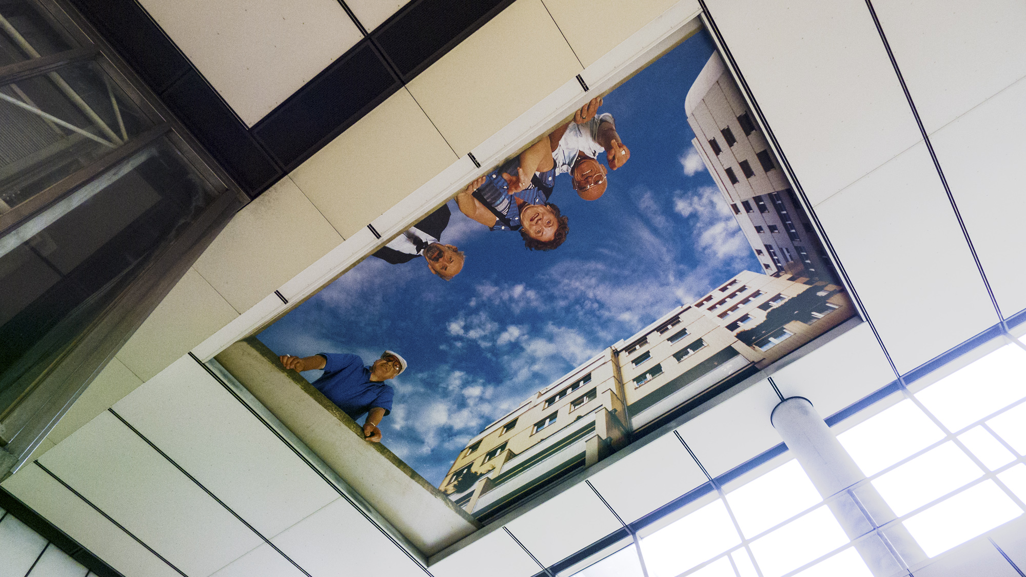 Underground station U-Bahn-Station Enkplatz in Vienna